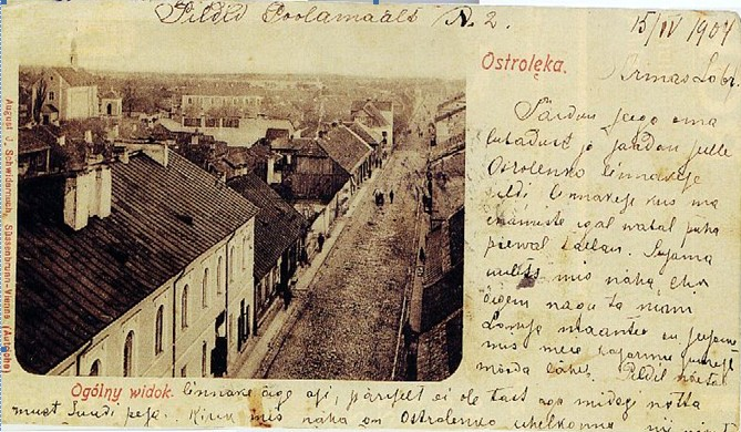 City of Ostroleka (Poland) in 1904.